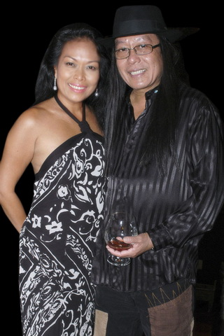 Marlene Aguilar with her brother Freddie Aguilar